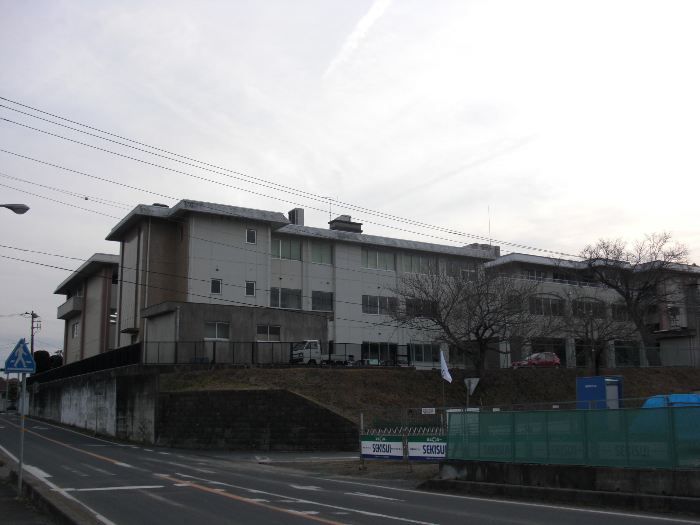 These are school buildings of Ibaraki pref. Ohta Daini High School, which is located in Hitachiota, Ibaraki, Japan.